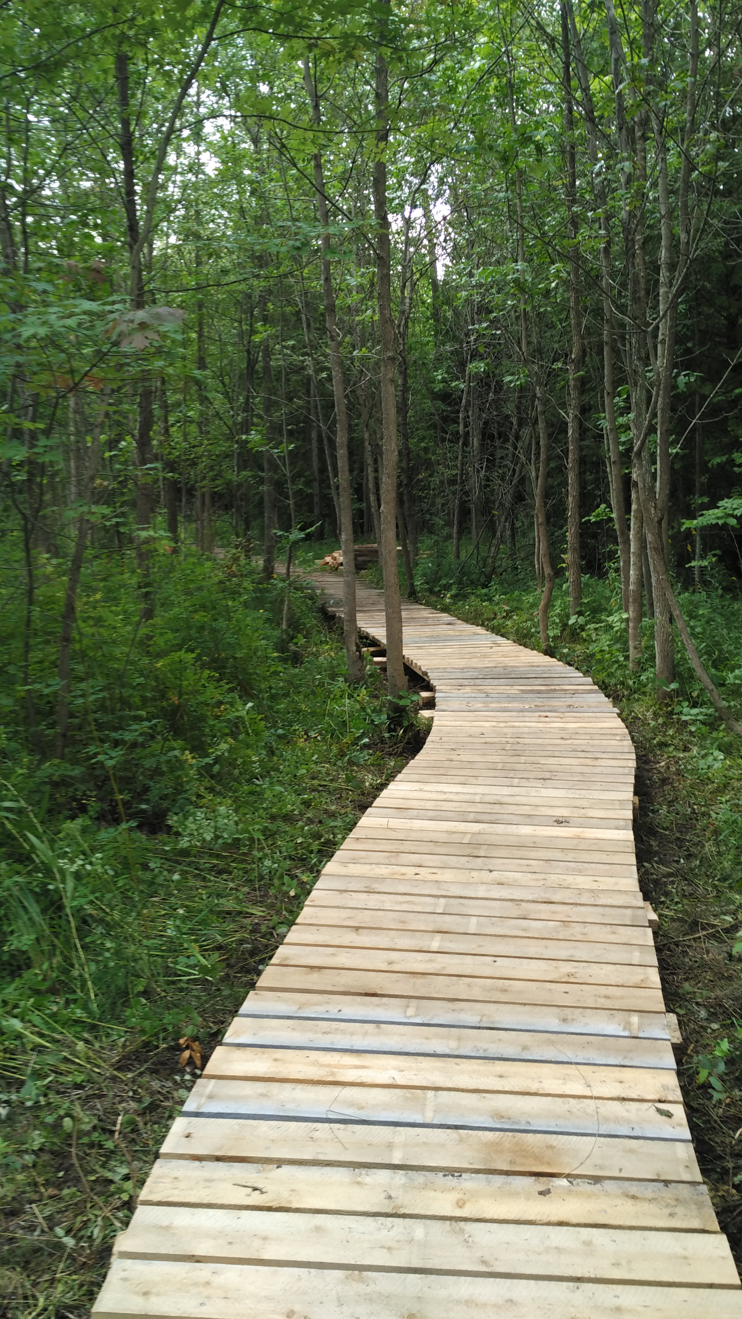 A nicely paved trail of Bruce Trails